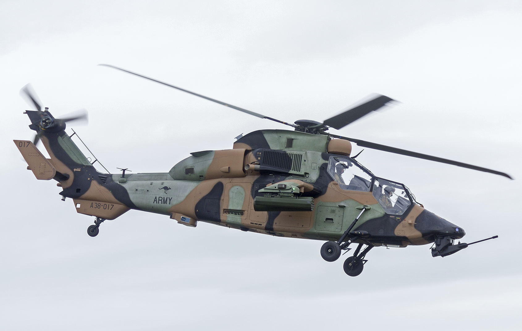 Australian Army (A38-017) Eurocopter Tiger ARH display at the 2015 Australian International Airshow.